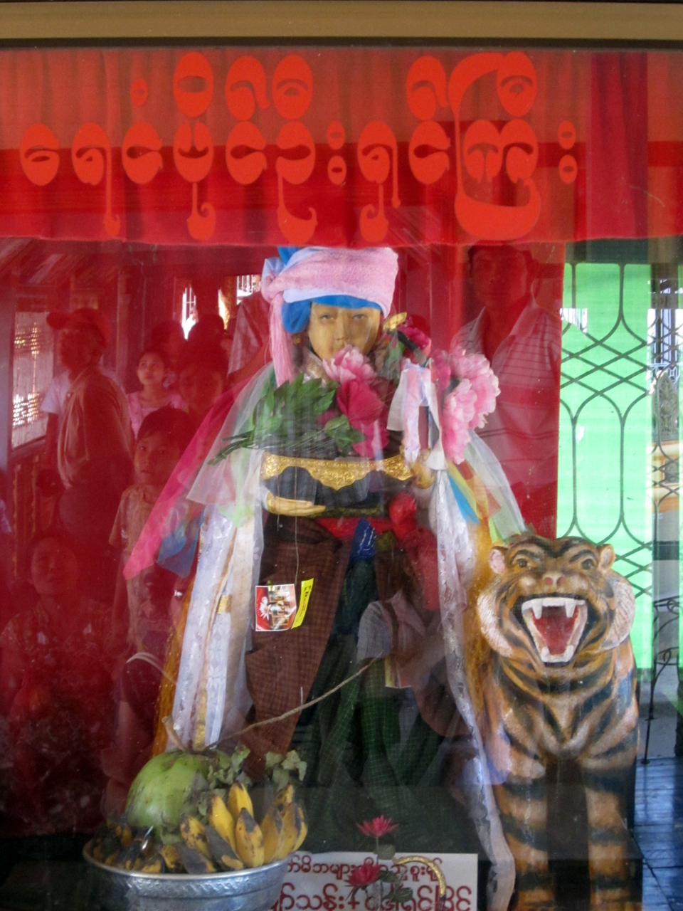 (Yay Ngan Paing) U Shin Gyi (guardian nat of waterways) at the Kyauktan Yay-Le Pagoda မြန်မာဘာသာ: ကျောက်တန်းရေလယ်ဘုရား ရေငံပိုင်ဦးရှင်ကြီး ရုပ်တု